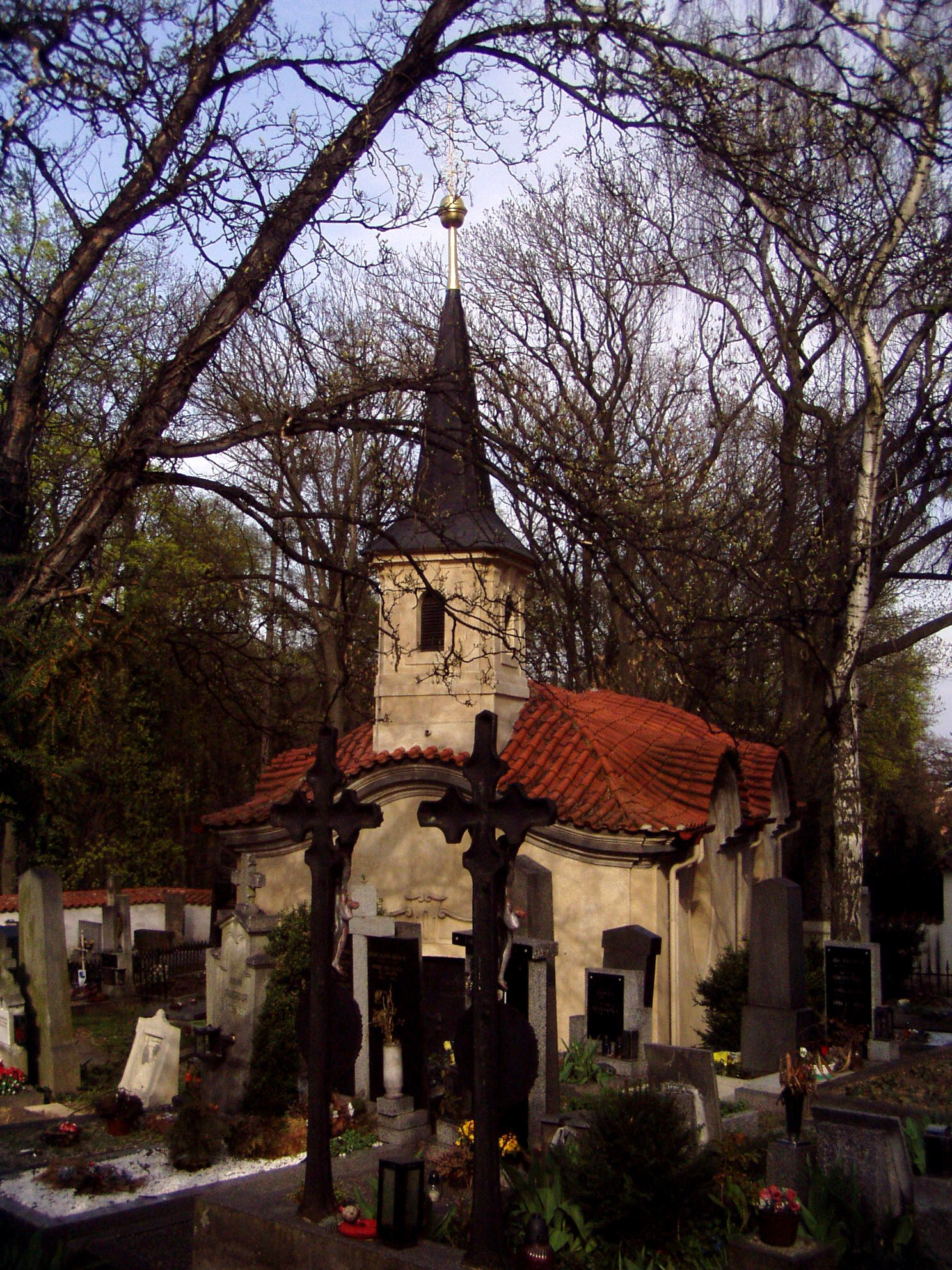 Chapel of St Lazar on Břevnov cemetery